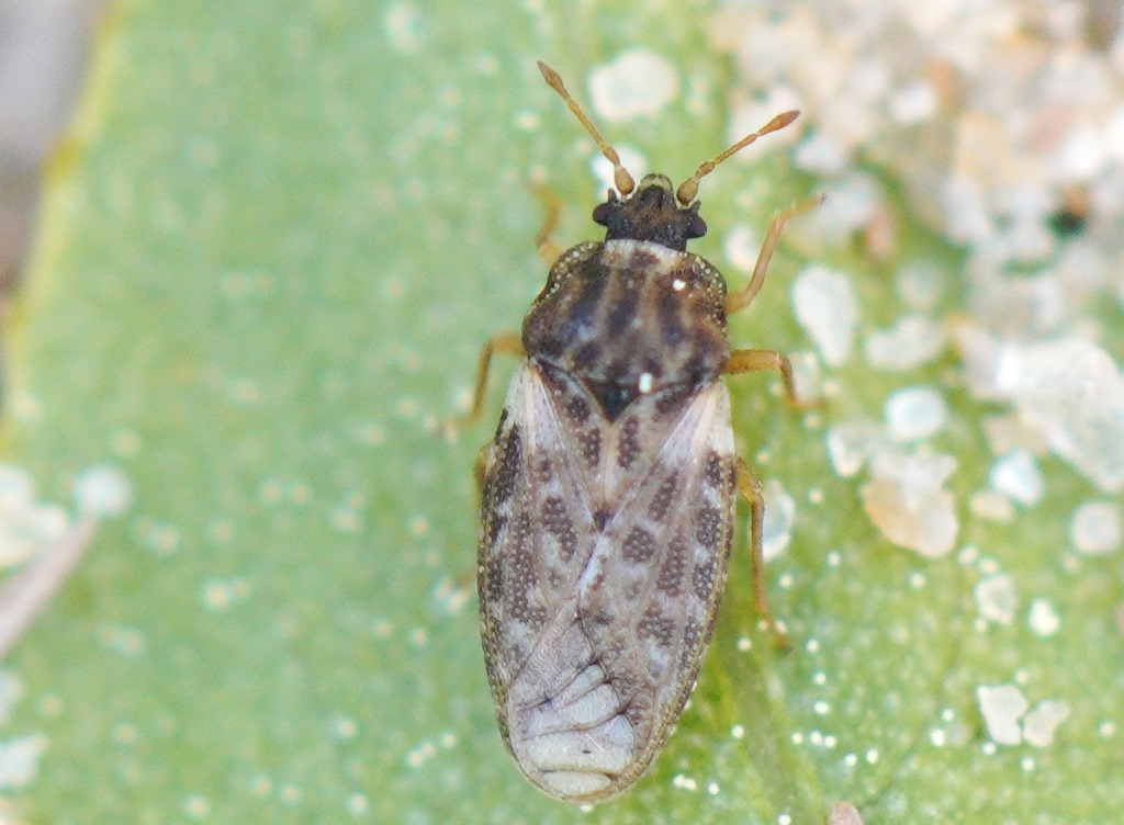 Piesma maculatum